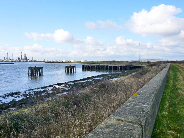 Occidental oil refinery construction jetty